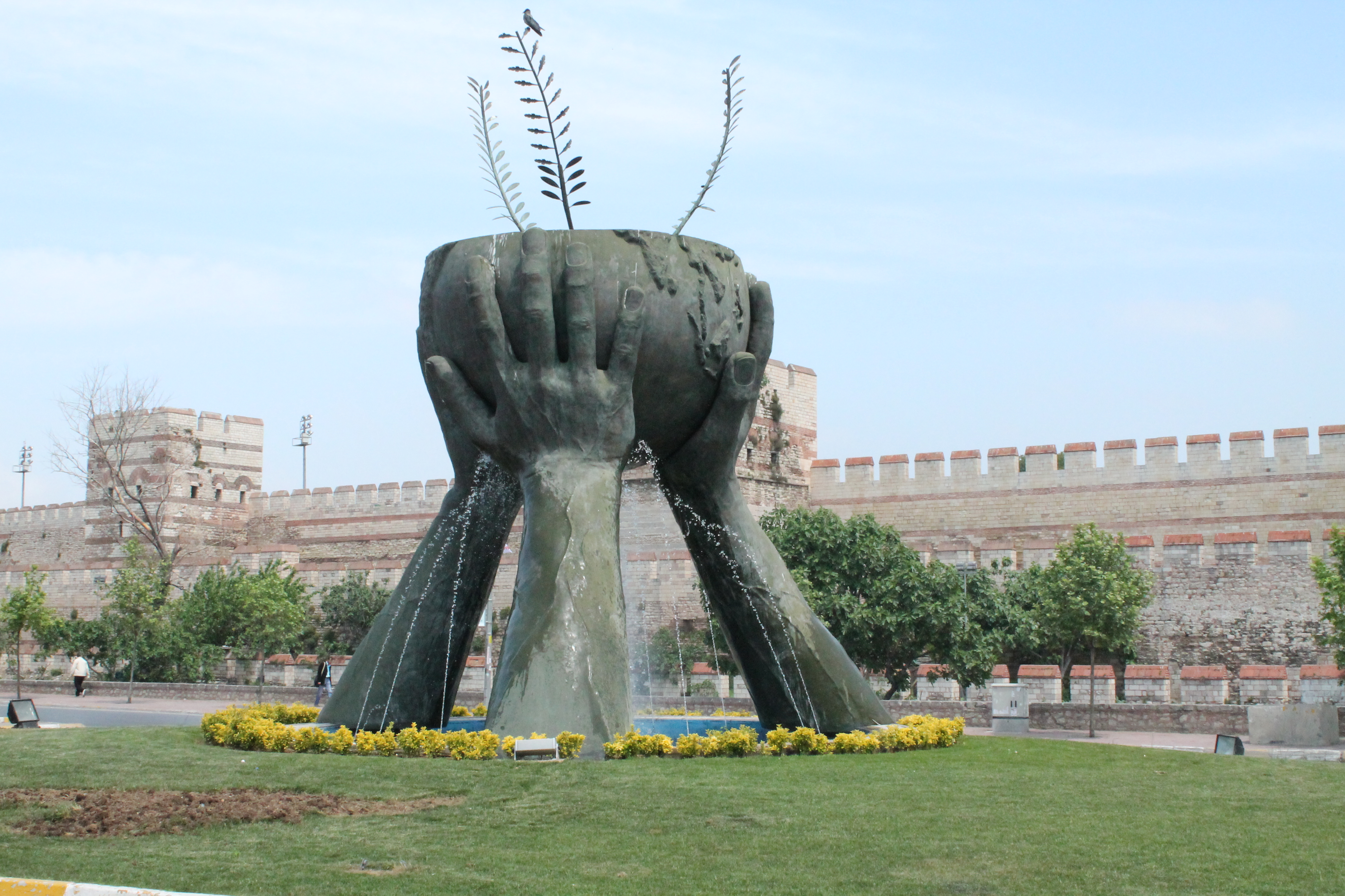 Belgradkapı Statue